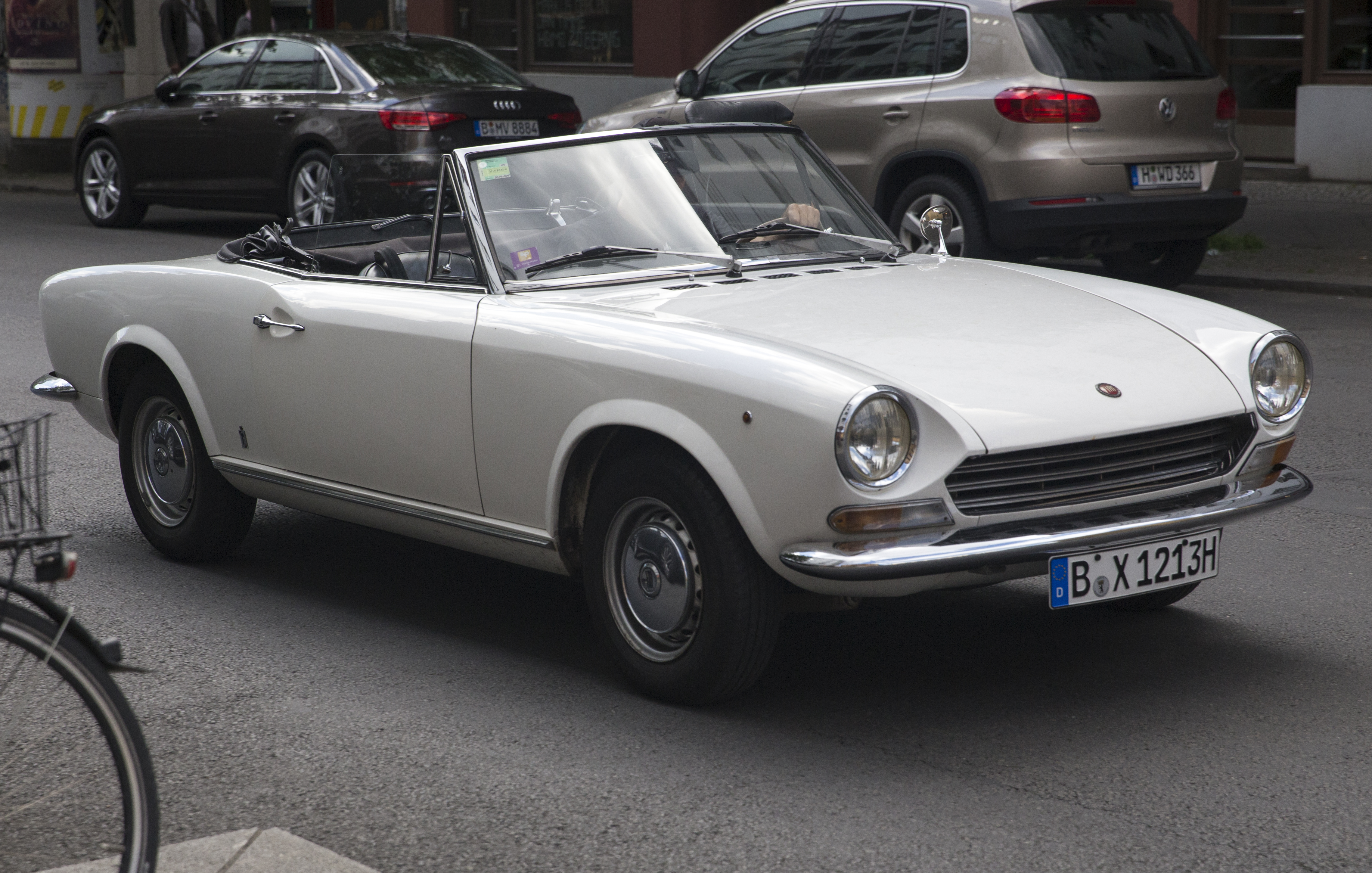 An early Fiat 124 Sport Spider (first series, AS) on the move in Berlin.